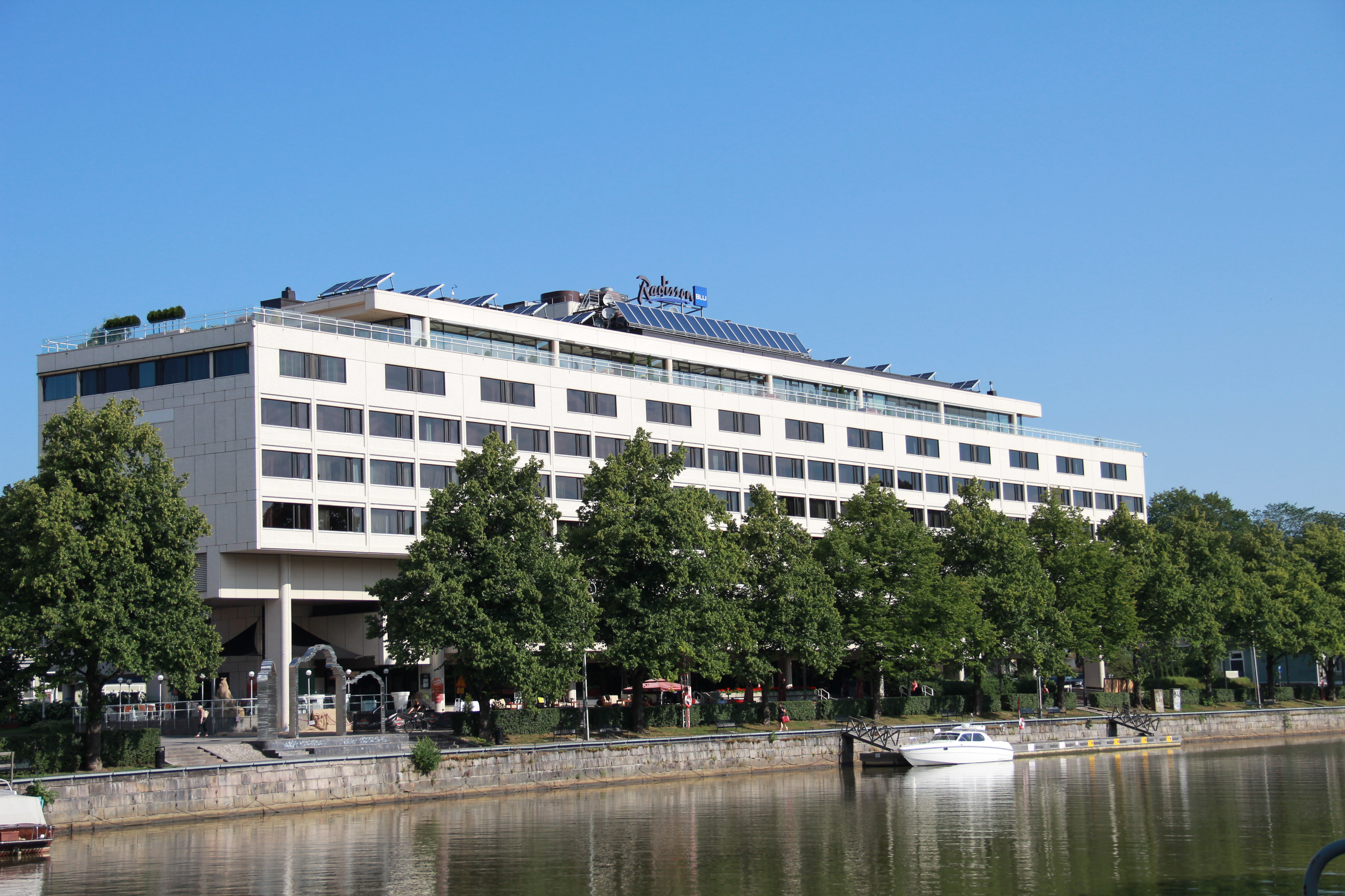 Hotel Radisson Blu Marina Palace in Turku, Finland.